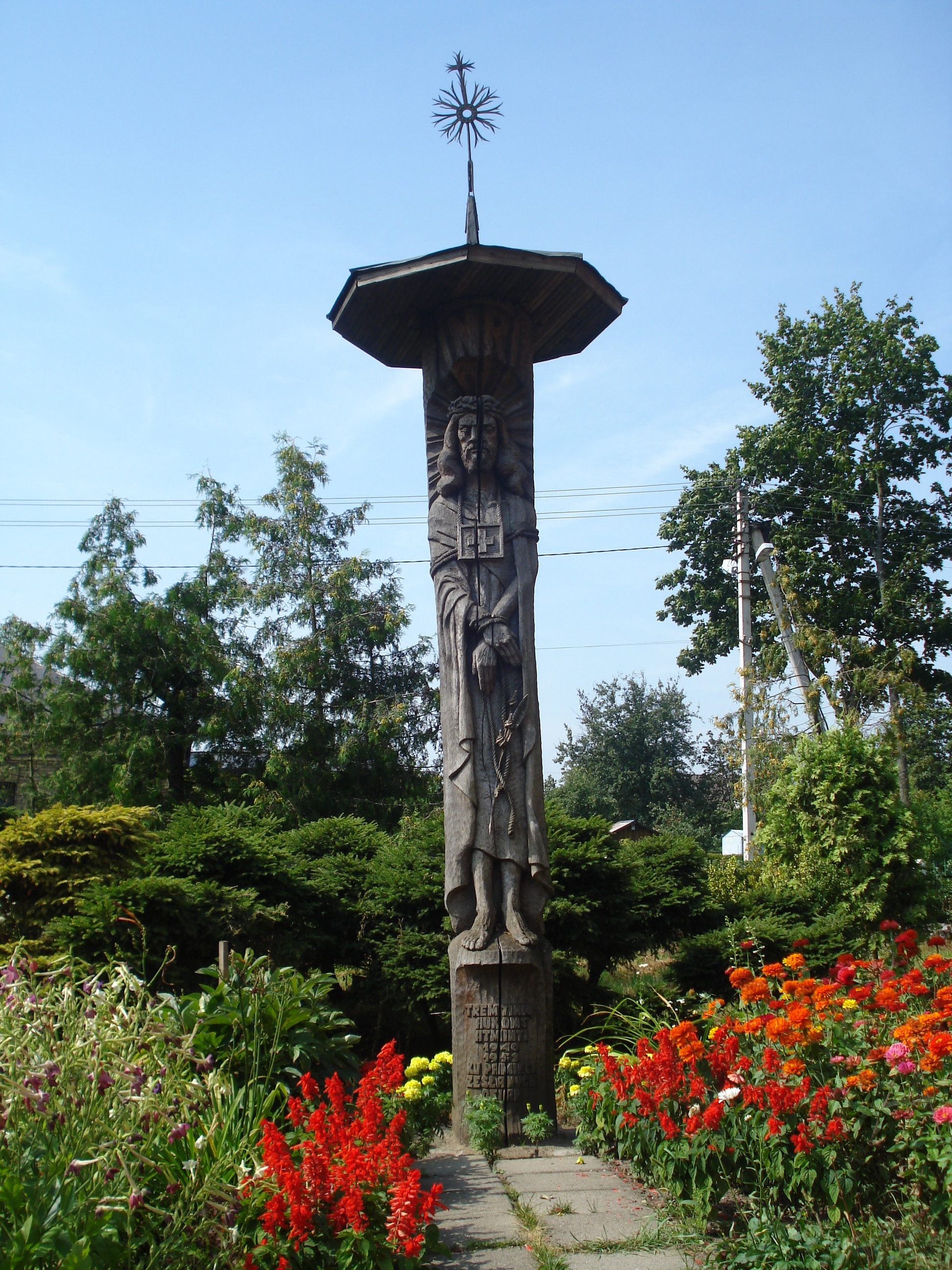 Wooden cross in memory of the victims of soviet deportations 1940-1952 in the yard of the church of St. Casimir in Naujoji Vilnia